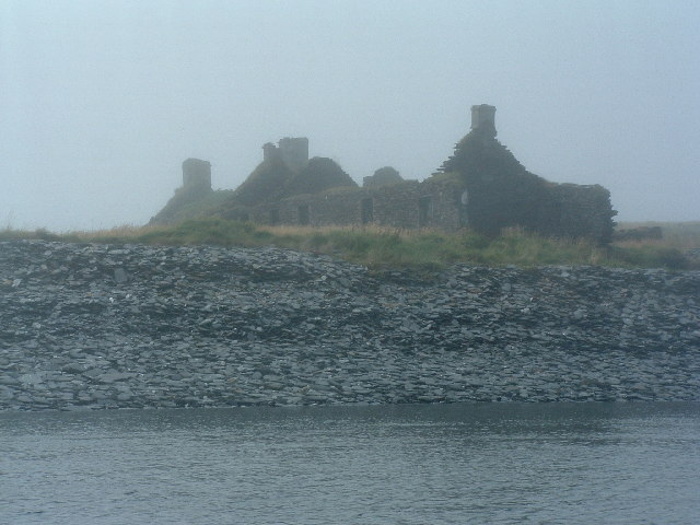 Ruins at Balnahua, Inner Hebrides, Scotland